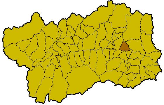 Locator map of Saint Vincent, Aosta, Italy